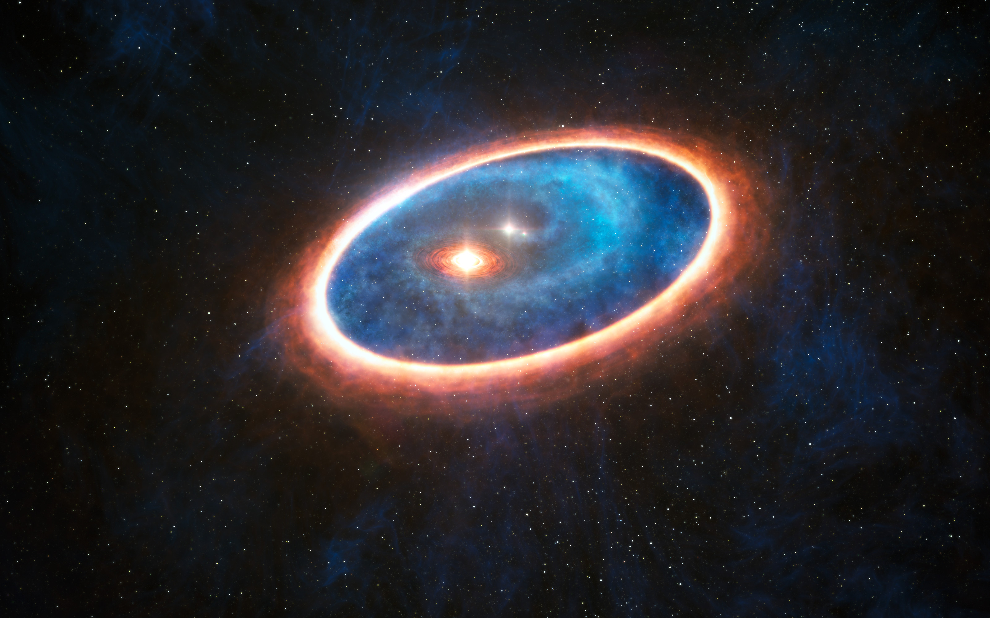 This artist’s impression shows the dust and gas around the double star system GG Tauri-A. Researchers using ALMA have detected gas in the region between two discs in this binary system. This may allow planets to form in the gravitationally perturbed environment of the binary. Half of Sun-like stars are bornin binary systems, meaning that these findings will have major consequences for the hunt for exoplanets.